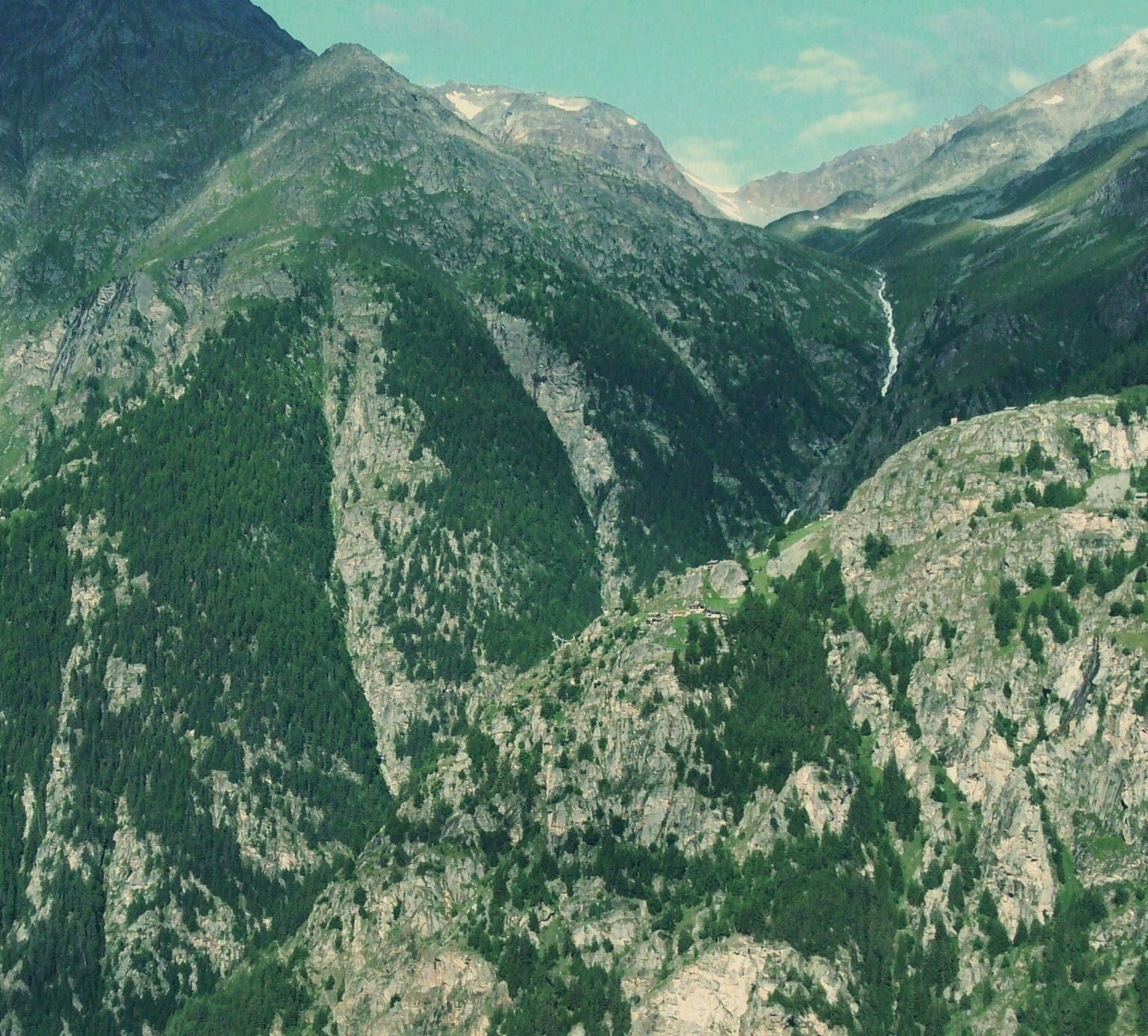 Western Side of the Matter-valley opposite Grächen, Valais, Switzerland with Alp-meadow Jungen, Jung-valley and -pass.